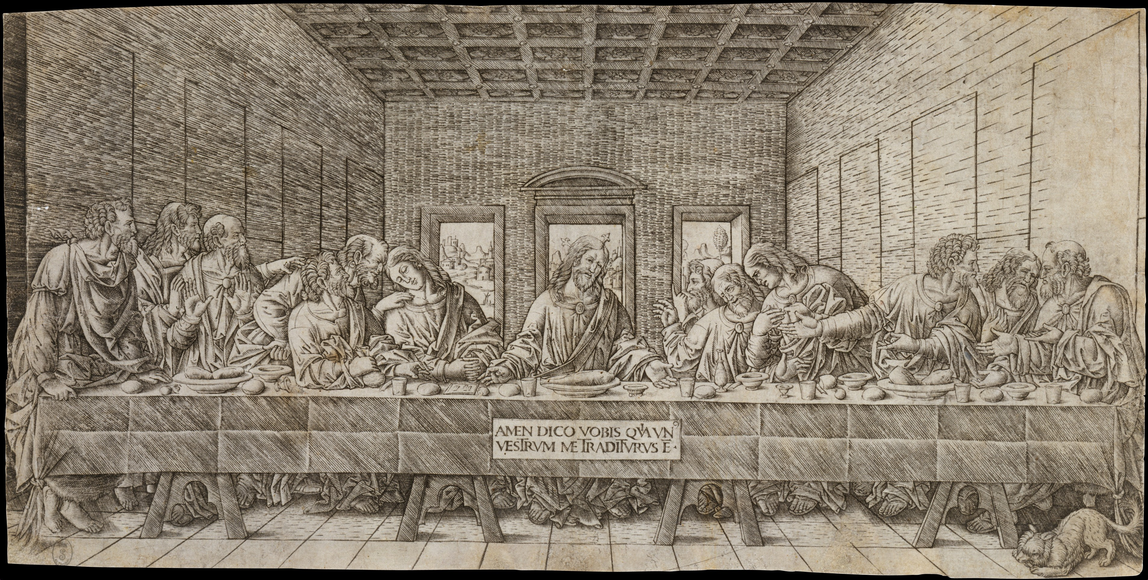 Print; Prints